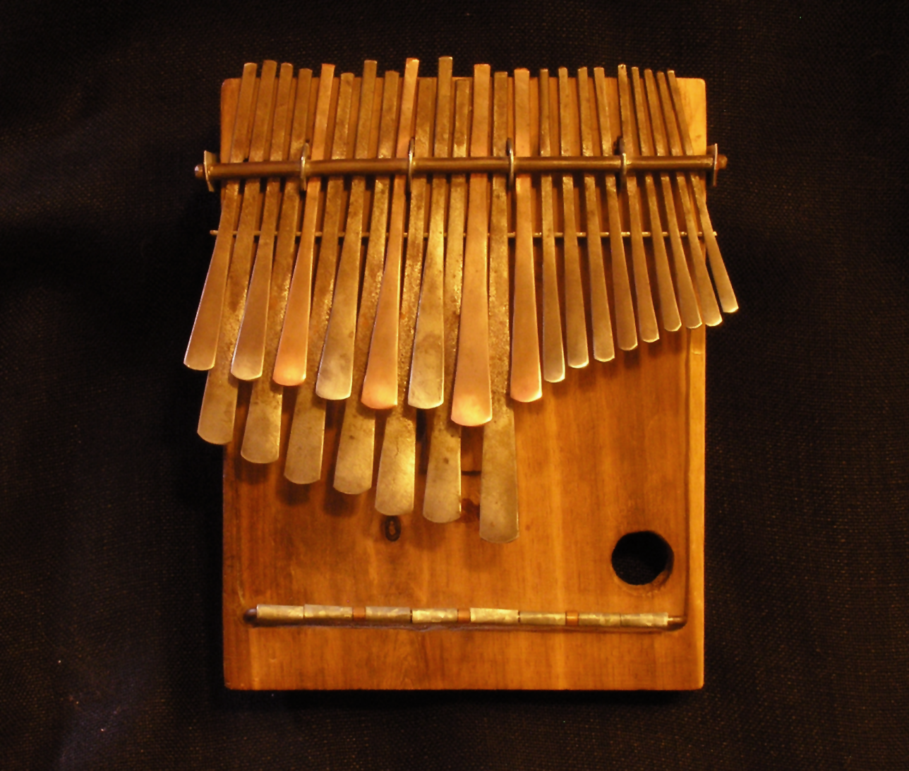 Taken be me, Alex Weeks on an Olympus C770. 2" at F8 under under an incandescent room light.